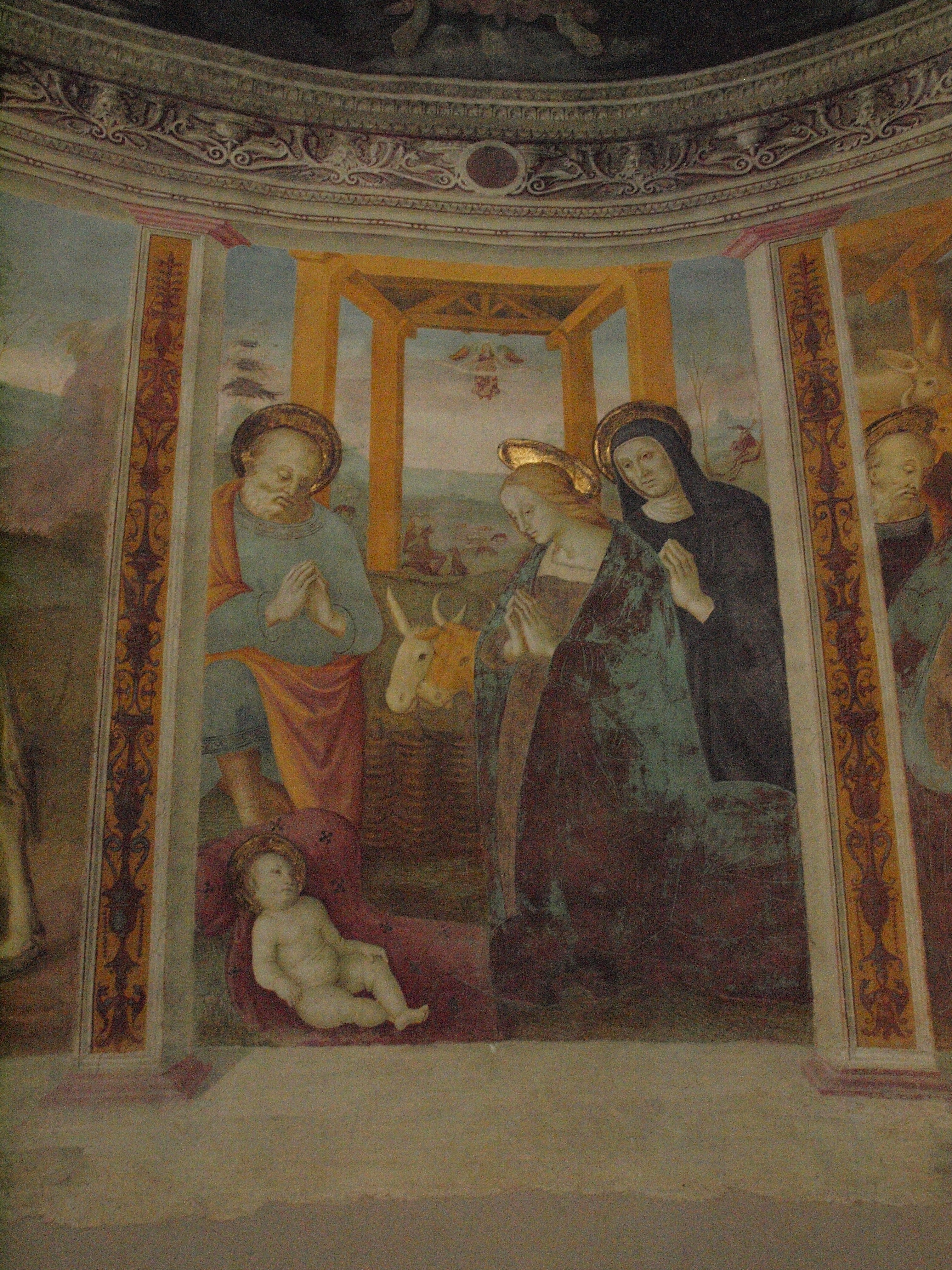 Nativity